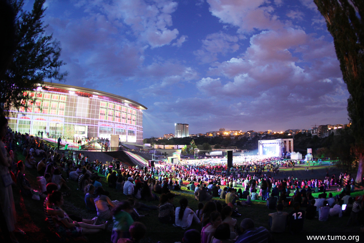 Tumo's Grand Opening in Yerevan 2011